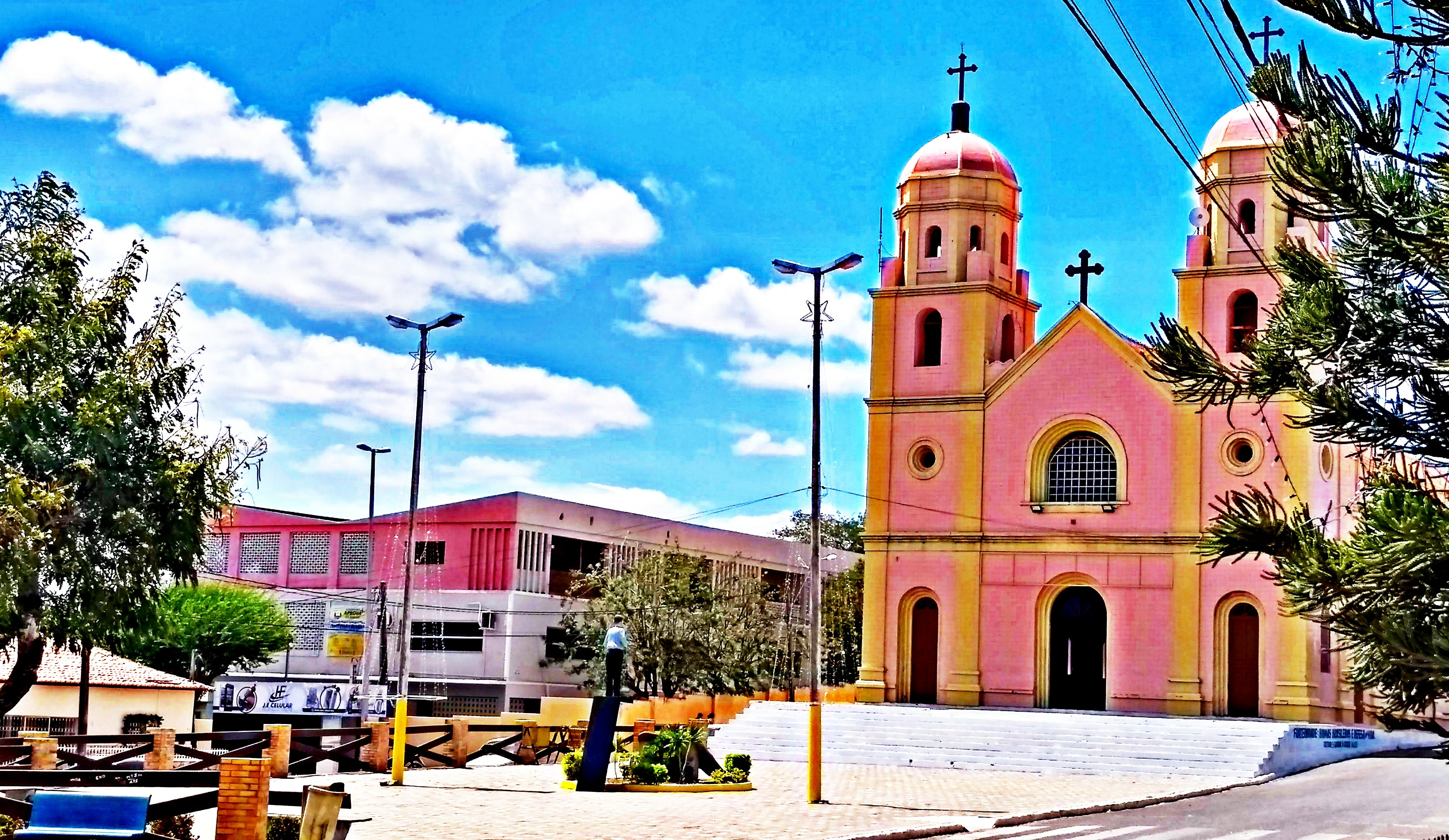 Vista de parte da praça Monsenhor Expedito e da Igreja Matriz